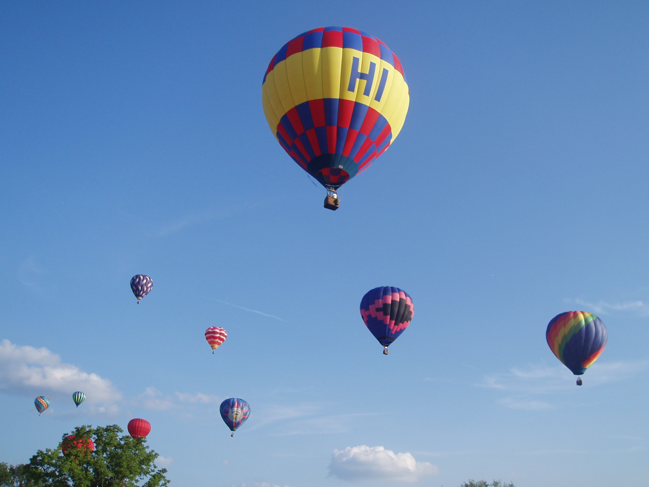 Various hot air balloons during the annual Warren County Farmers' Fair Balloon Festival.